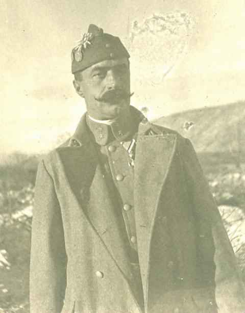 Mihály Francia Kiss (1887 – 1957) Hungarian soldier. He was member of Scrubby or Ragged Guards 1921 and 1938.